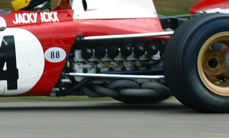 A Ferrari Tipo 001 engine installed on a Ferrari 312B2 F1 car driven by Bruno Senna at 2008 Goodwood